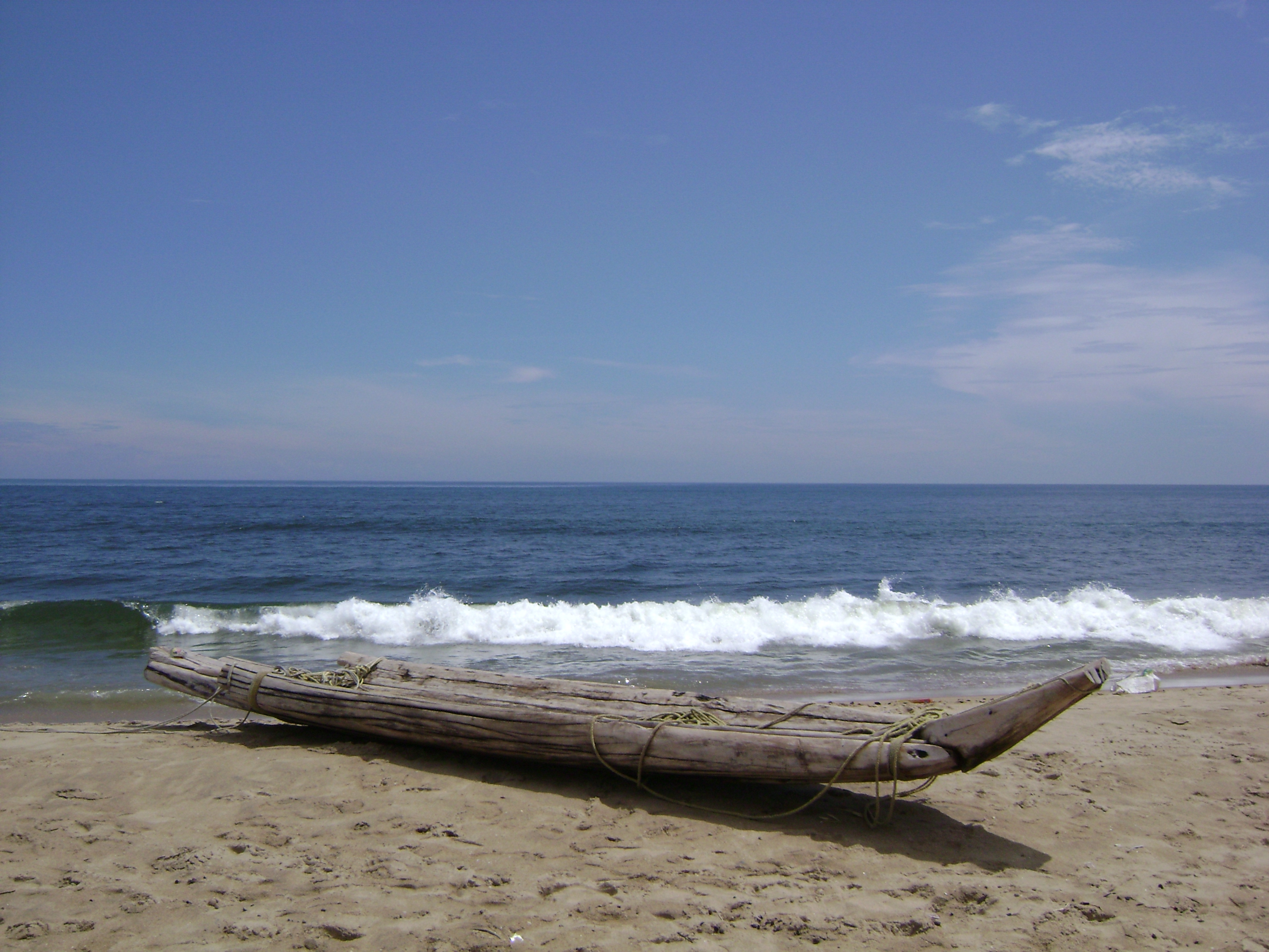 Catamaran at Marina Beach, Chennai